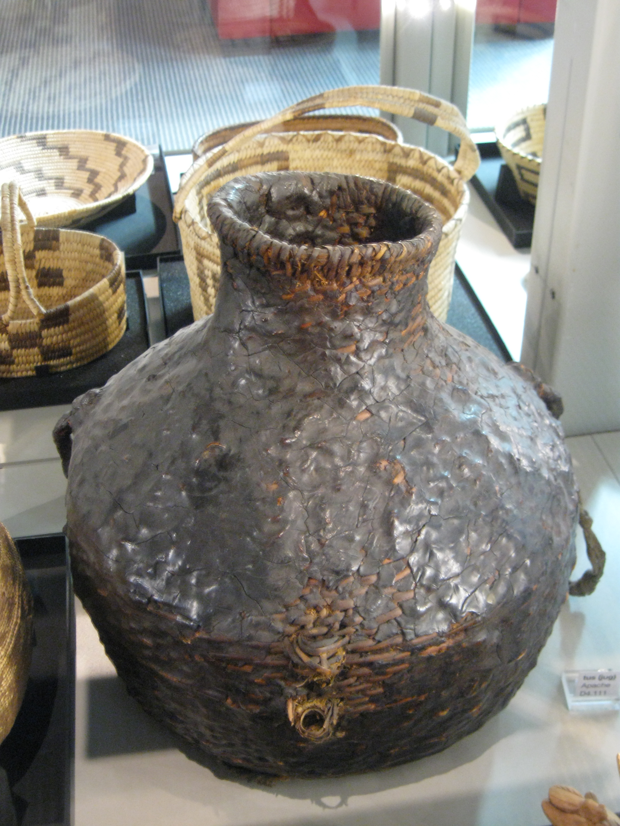 A native Indian Apache 'tus' or jug now on permanent display at UBC's Museum of Anthropology in Vancouver, BC, Canada. Its Museum catalogue number is D4.111.